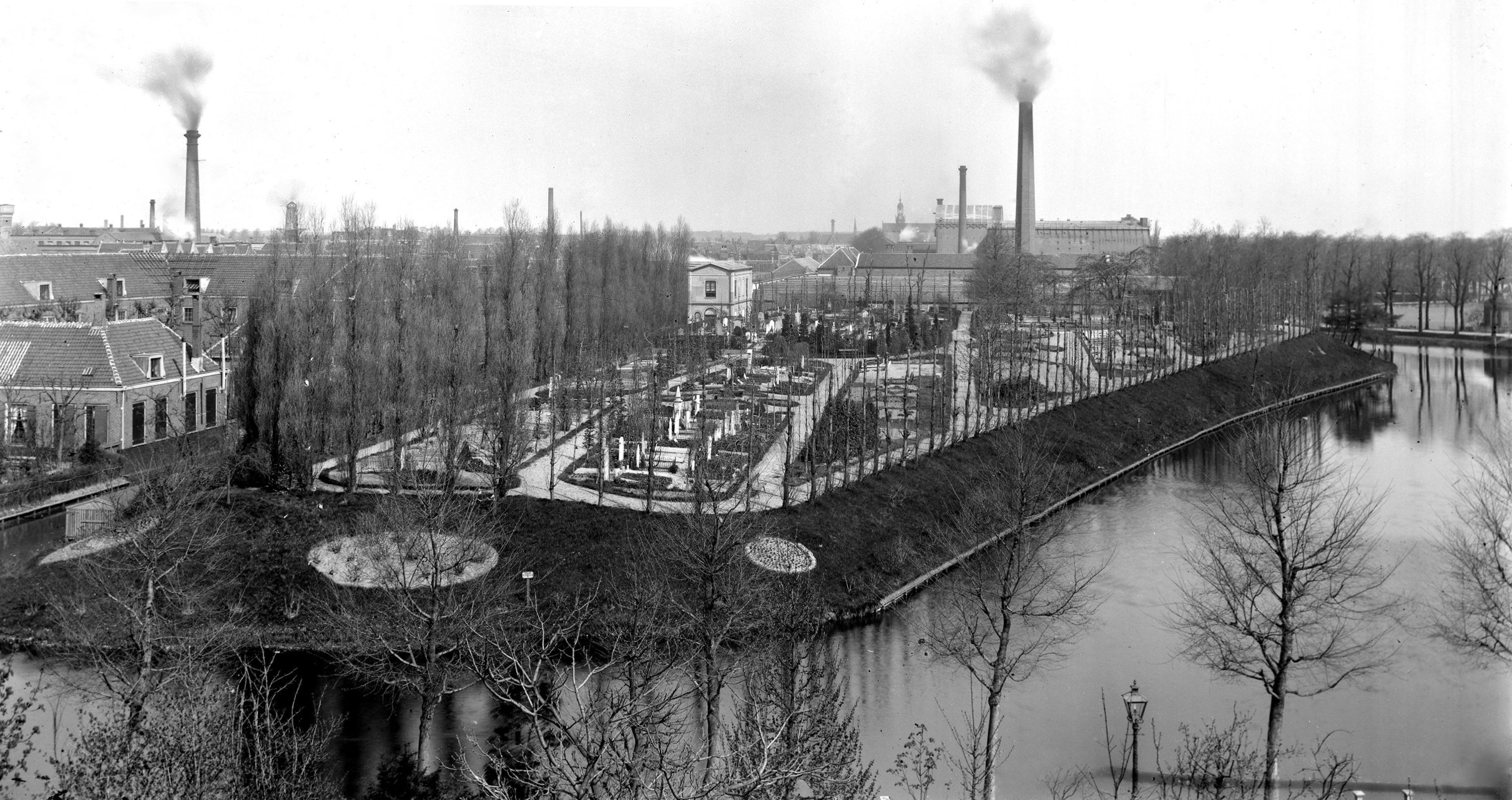 View facing north of the Groenesteeg cemetery in leiden. In the background the turret of the Zijlpoort is partially visible.